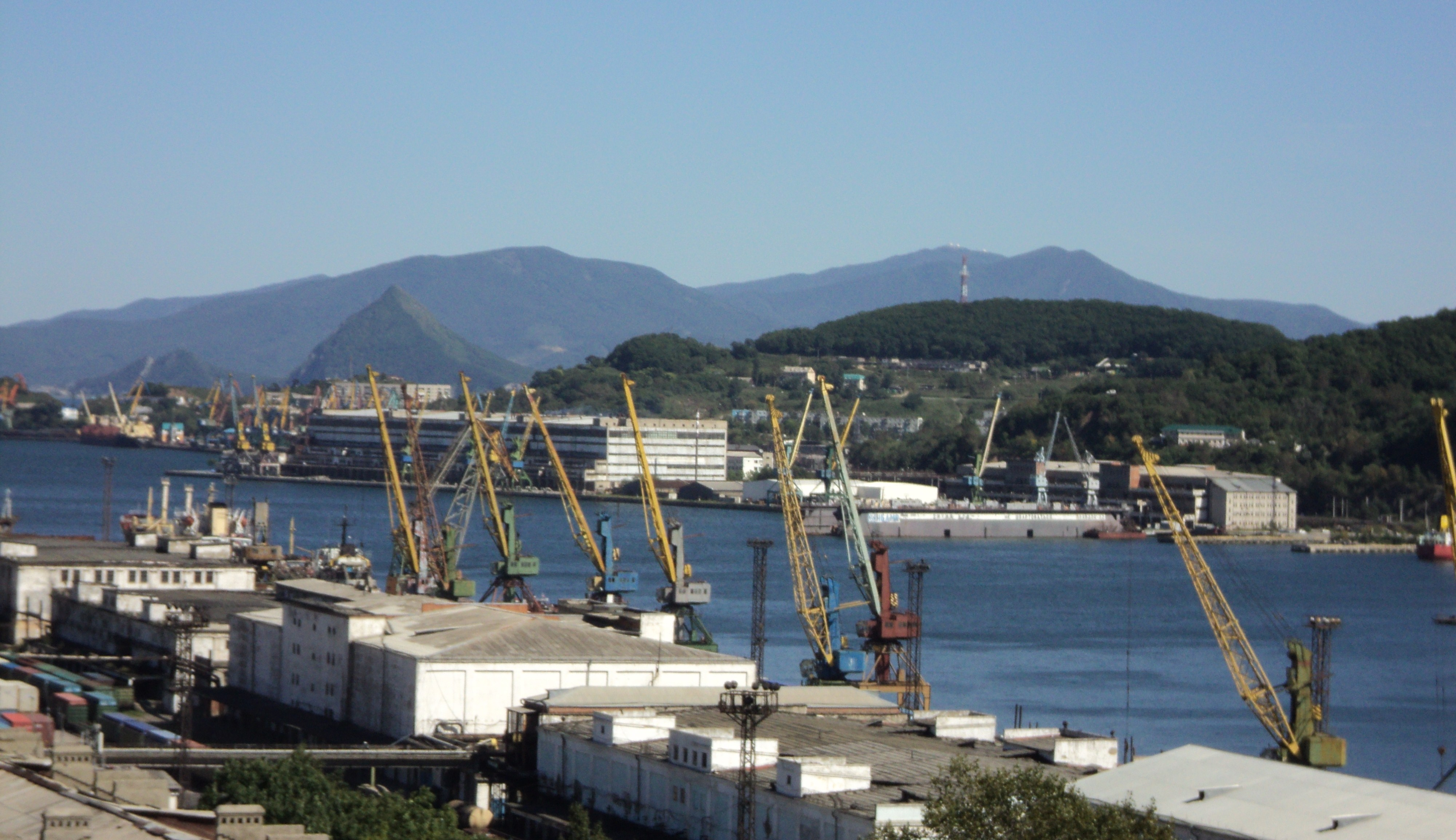 Nakhodka Sea Fishing Port